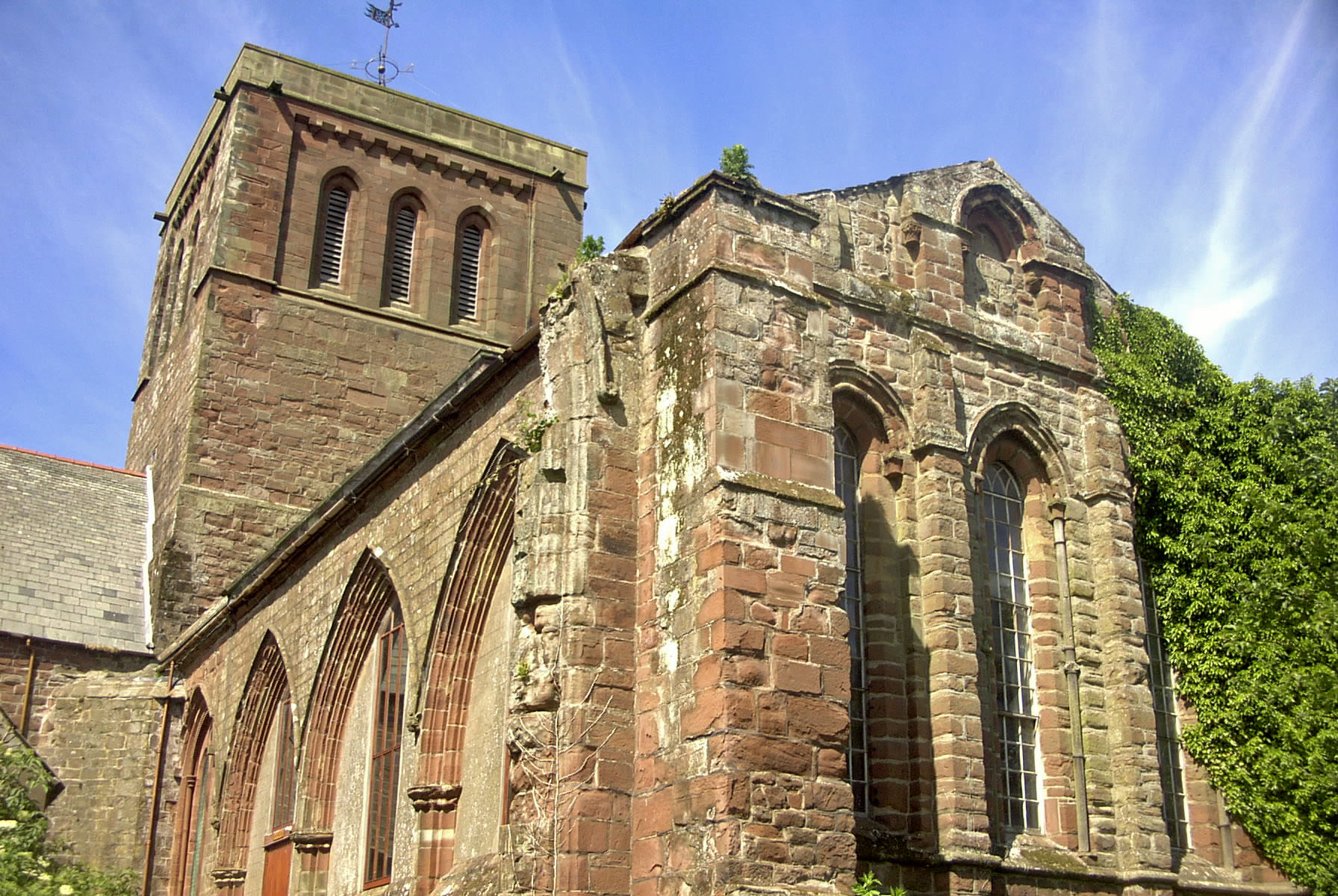 St Bees the monastic chancel dating from 1190